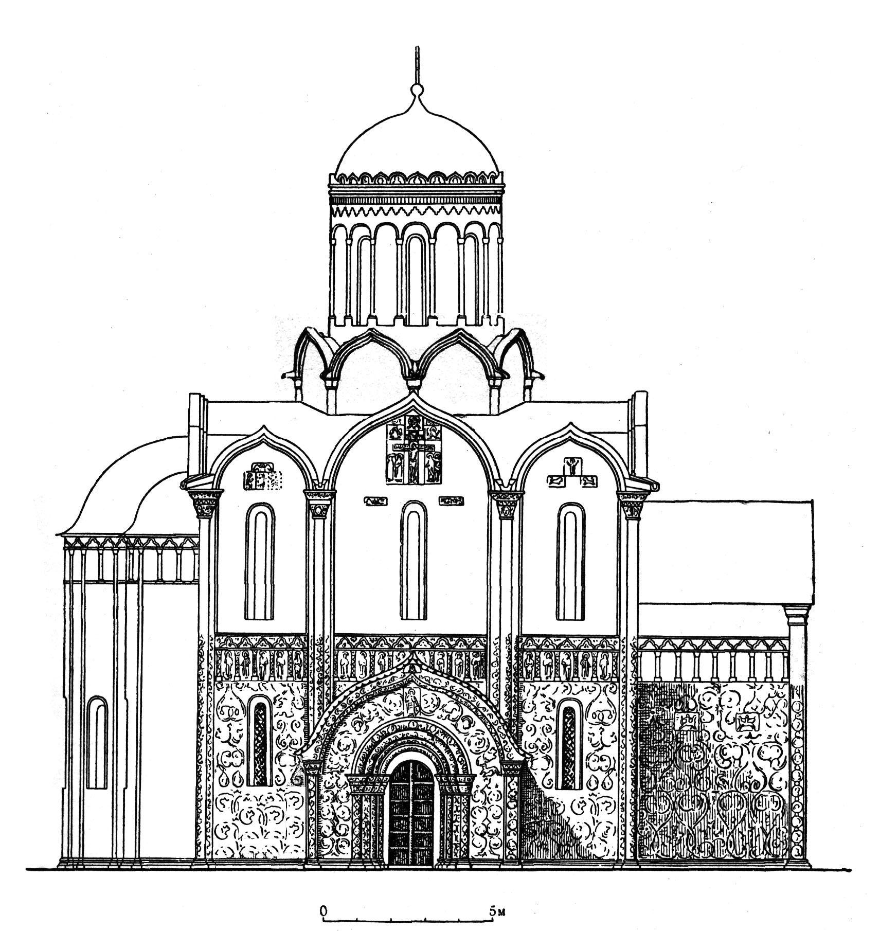 Dr. Sergey Zagraevsky permitted to use in Wikipedia his scientific works on the conditions of free licenses, permission # 2009062810038434.